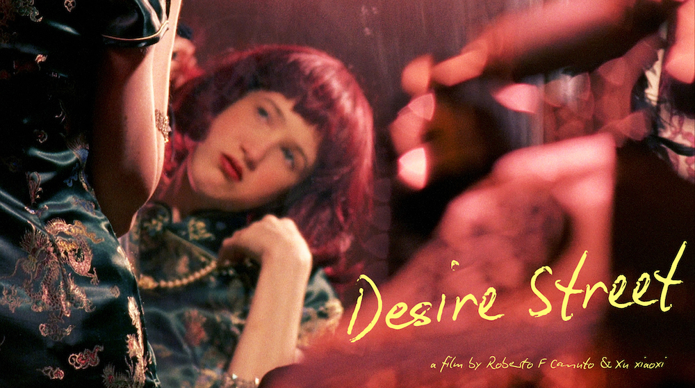 Desire Street (film) a film by Roberto F. Canuto & Xu Xiaoxi. Scene from the film.